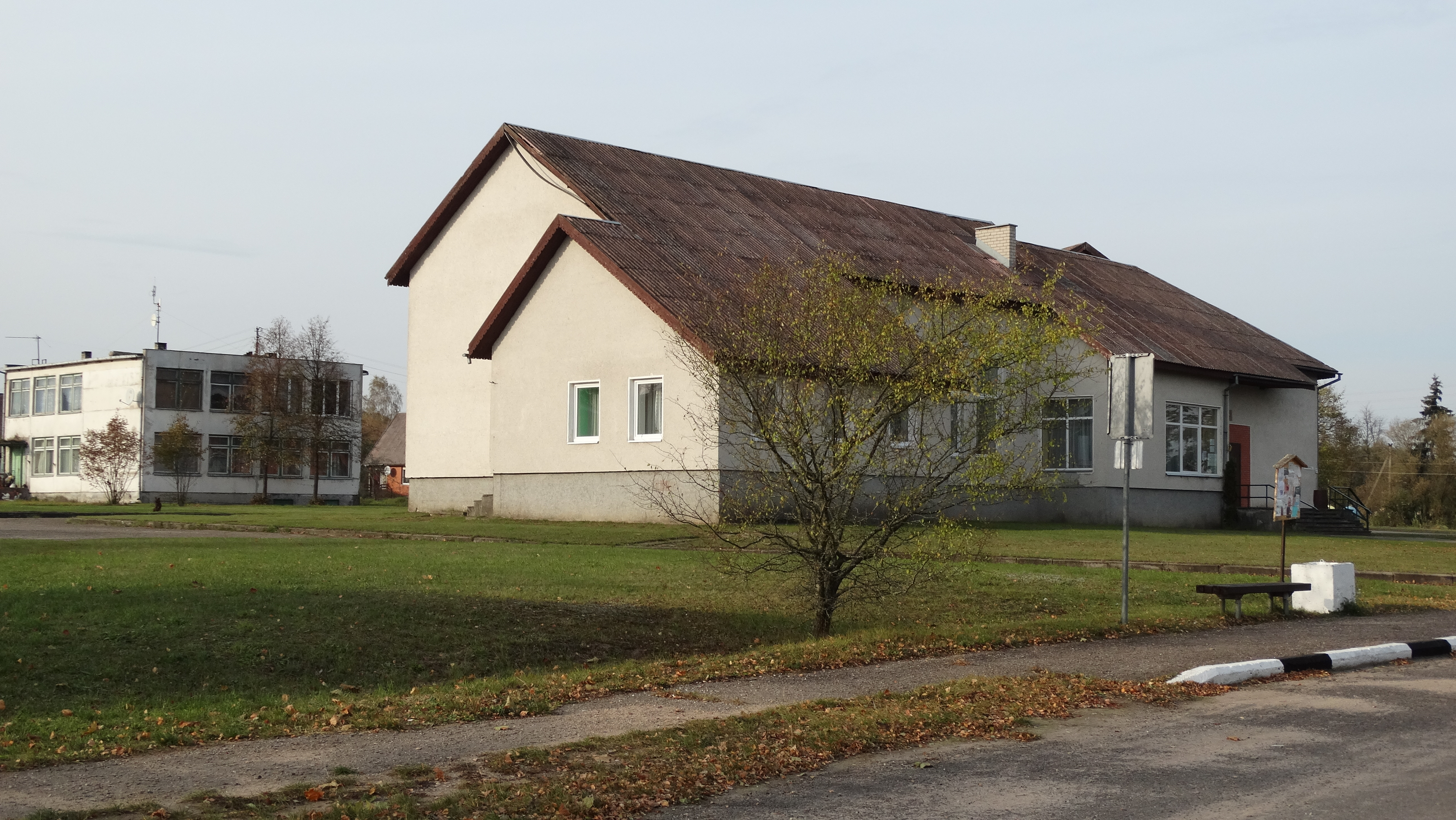 Panara, Varėna district, Lithuania